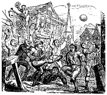 A mob football match played at London's Crowe Street.